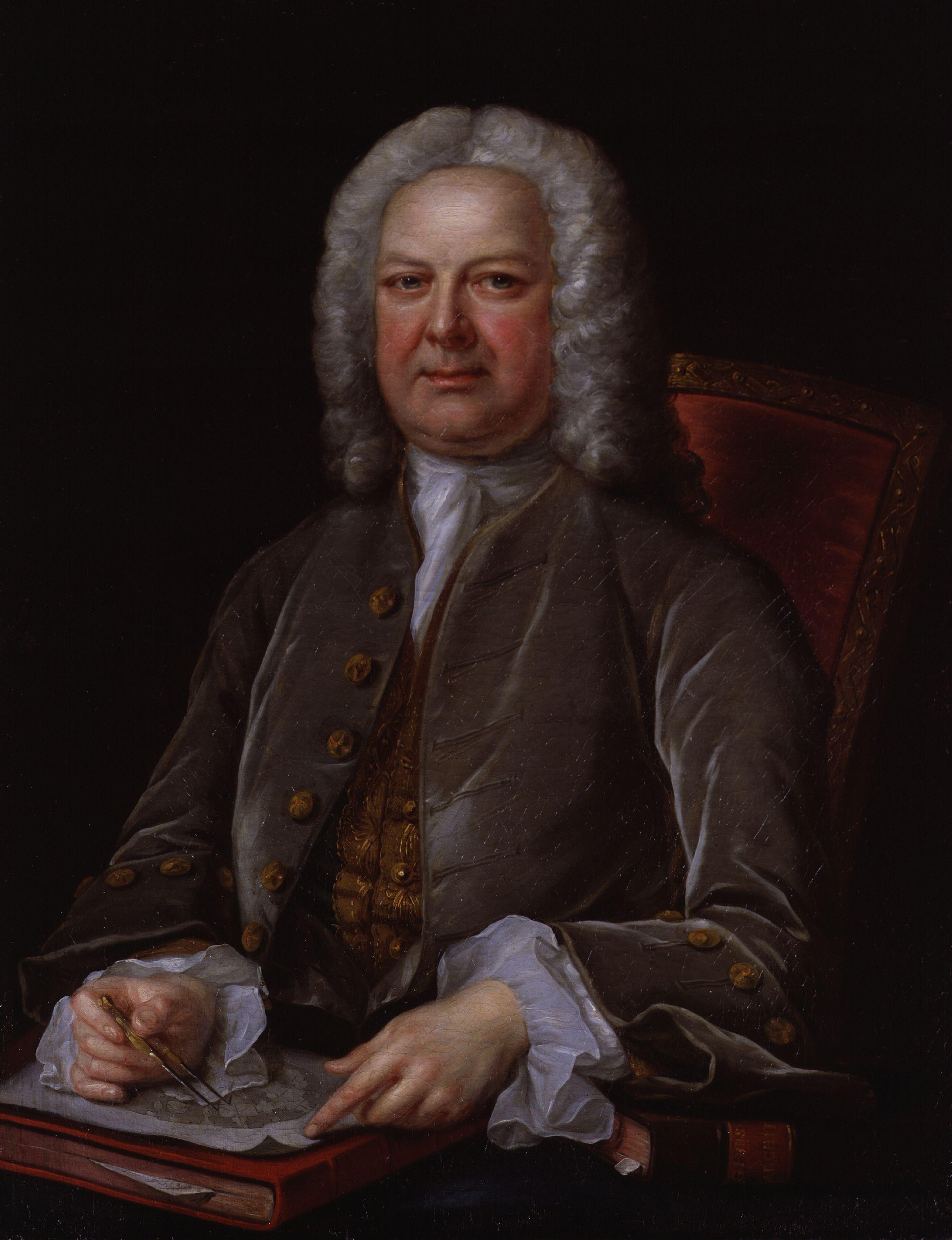 James Gibbs, by John Michael Williams. All images in this batch have a known author, but have manually examined for strong evidence that the author was dead before 1939, such as approximate death dates, birth dates, floruit dates, and publication dates.